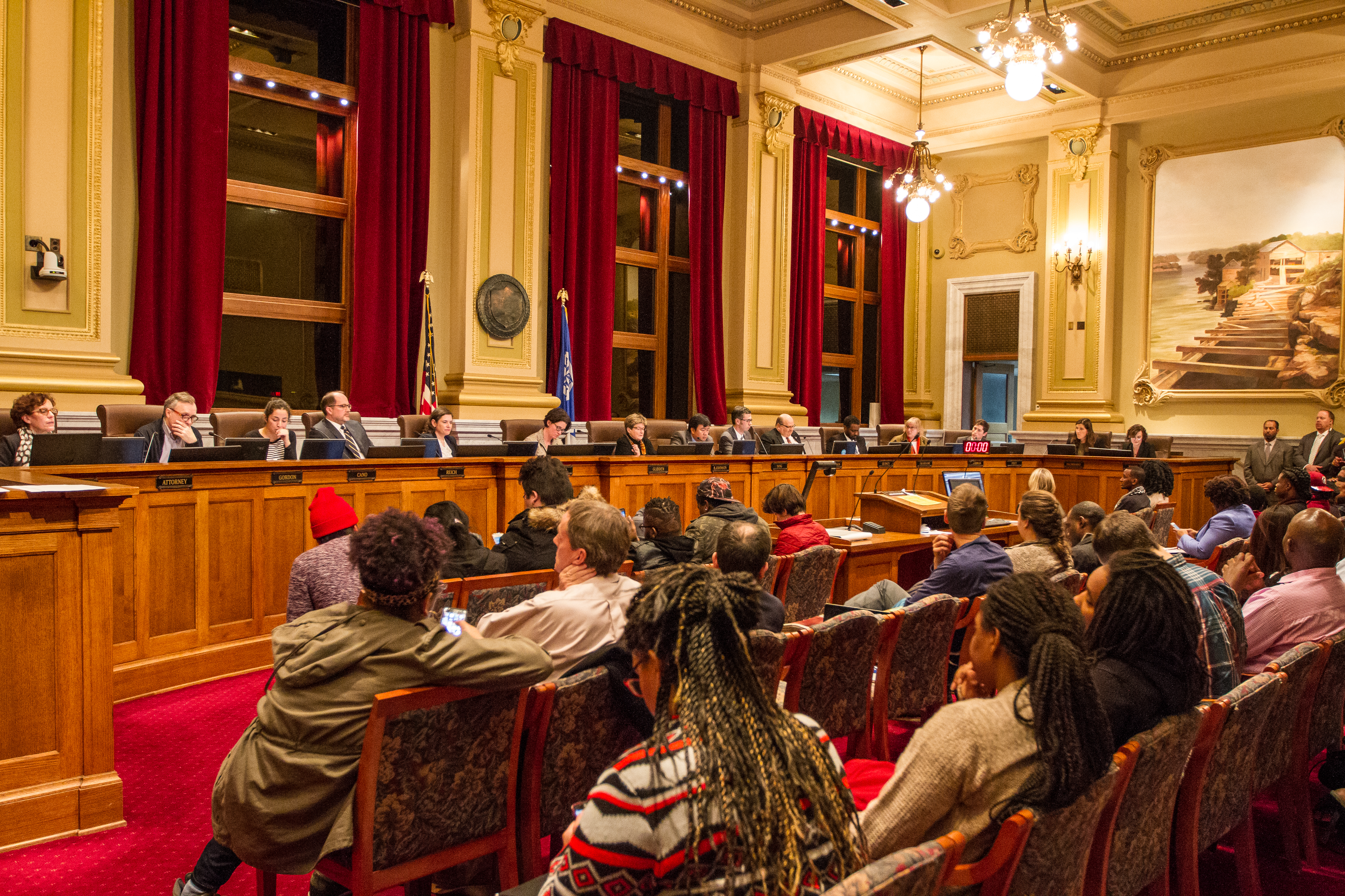 Minneapolis City Hall - December 9, 2015 City Council budget hearing